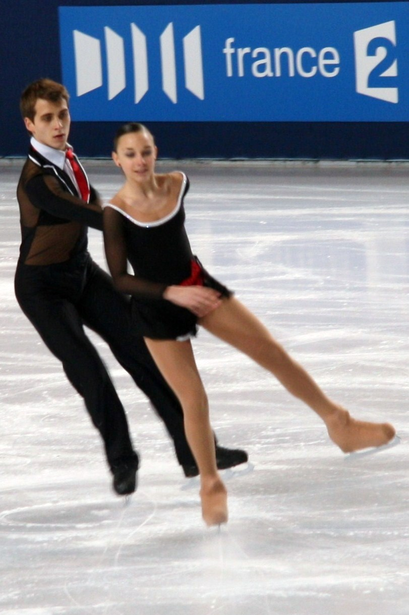 Klara Kadlecova and Petr Bidar at the 2010 Trophée Eric Bompard, SP